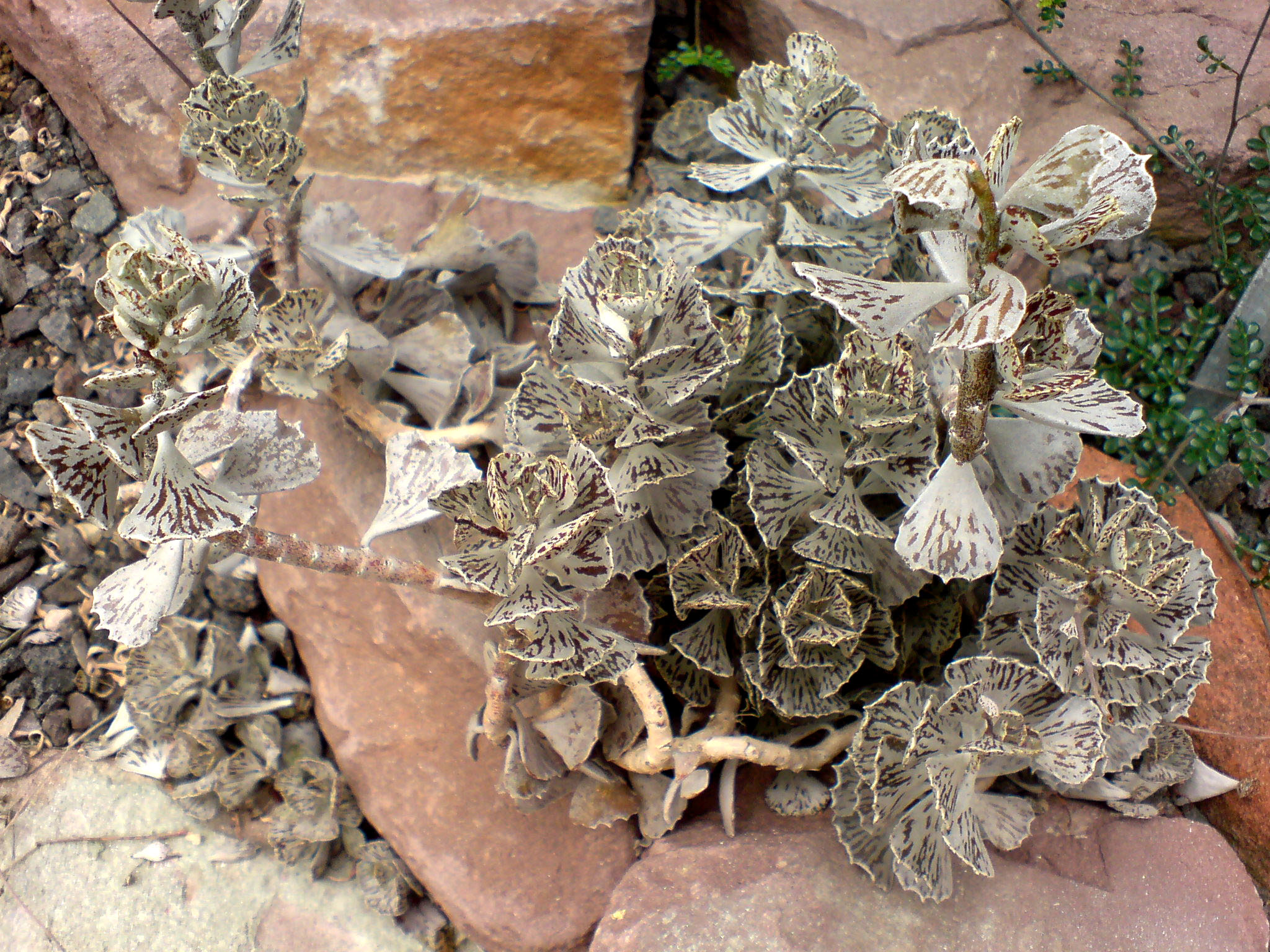 Kalanchoe rhombopilosa - Botanical Garden Göttingen